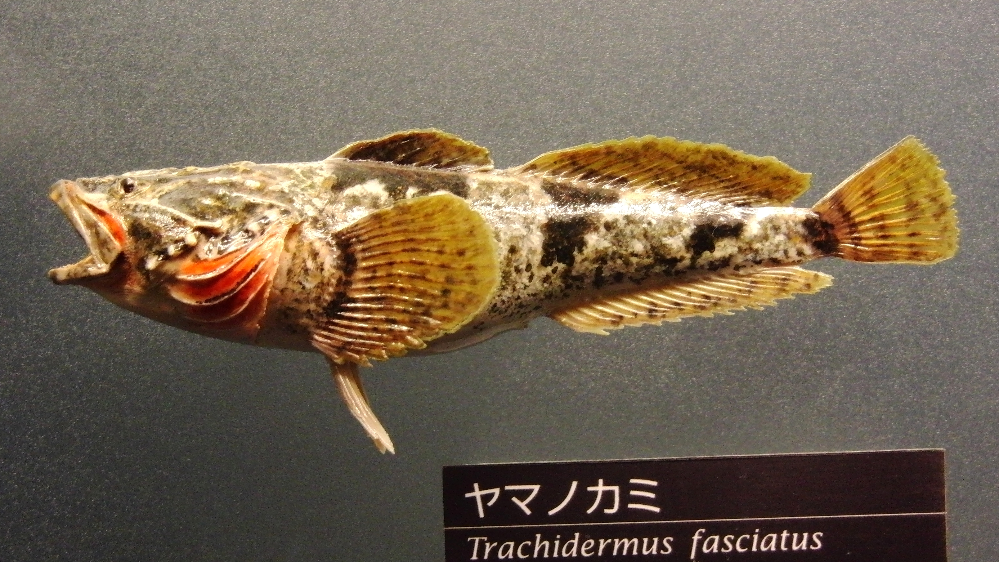 Stuffed specimen of Trachidermus fasciatus. Exhibit in the National Museum of Nature and Science, Tokyo, Japan.